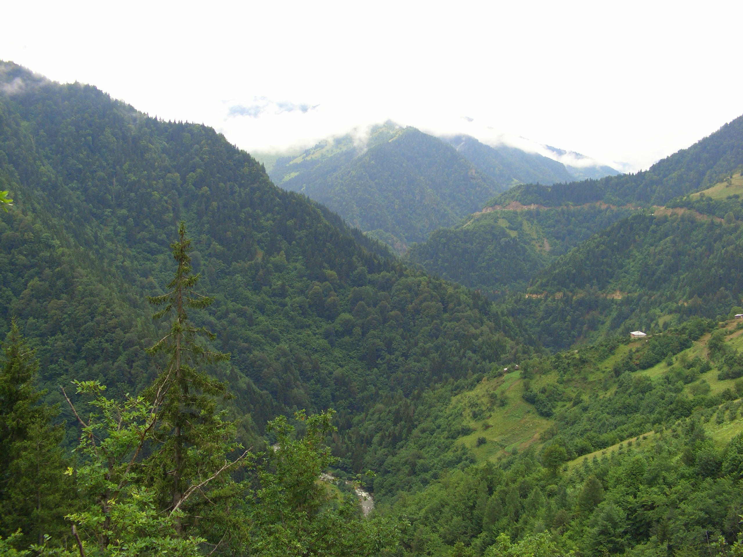 A view of "Giresun Daglari" (Giresun mountains chain) in Dereli District of Giresun Province.